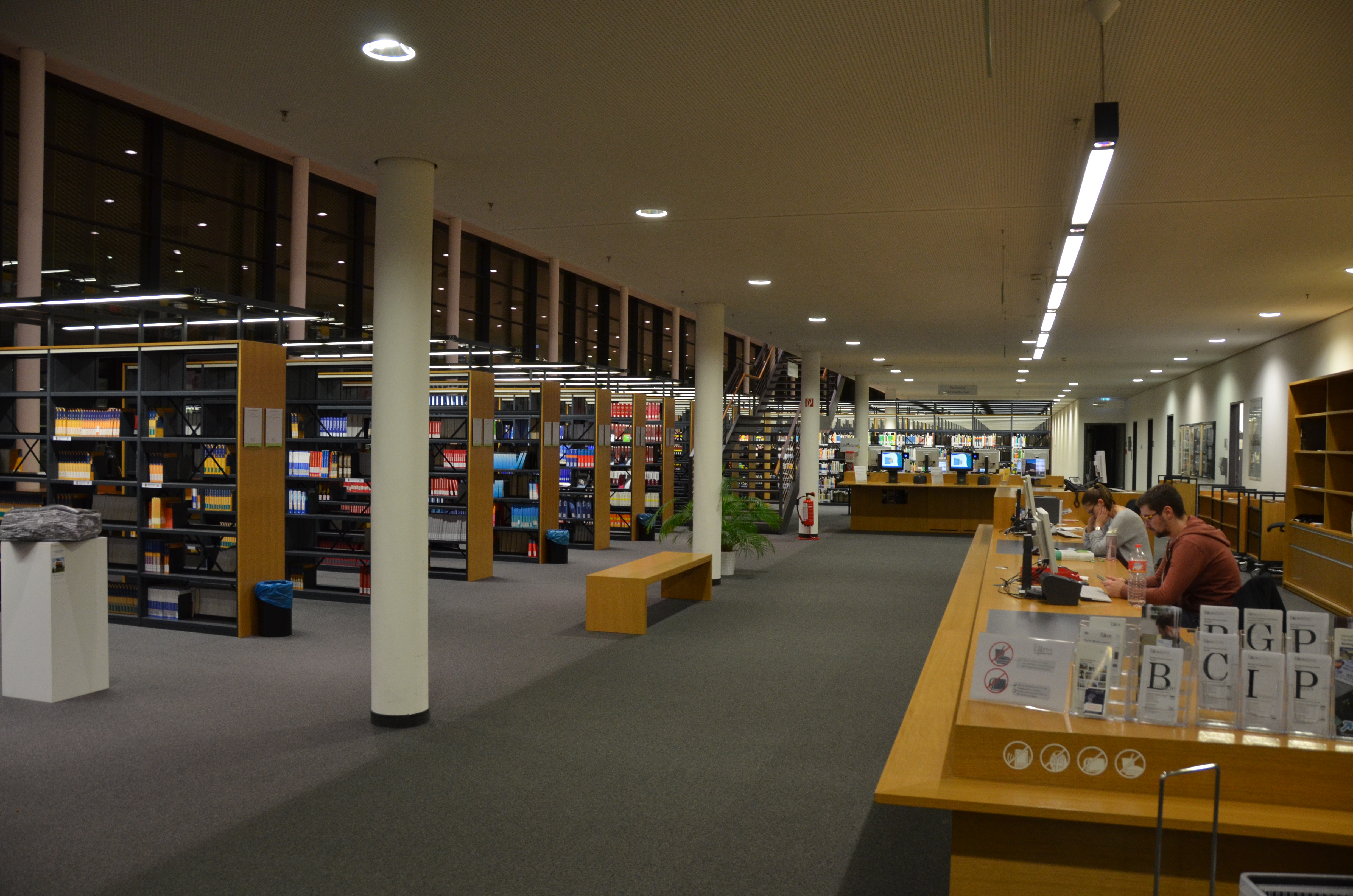 Bibliothek Naturwissenschaften (BNat)